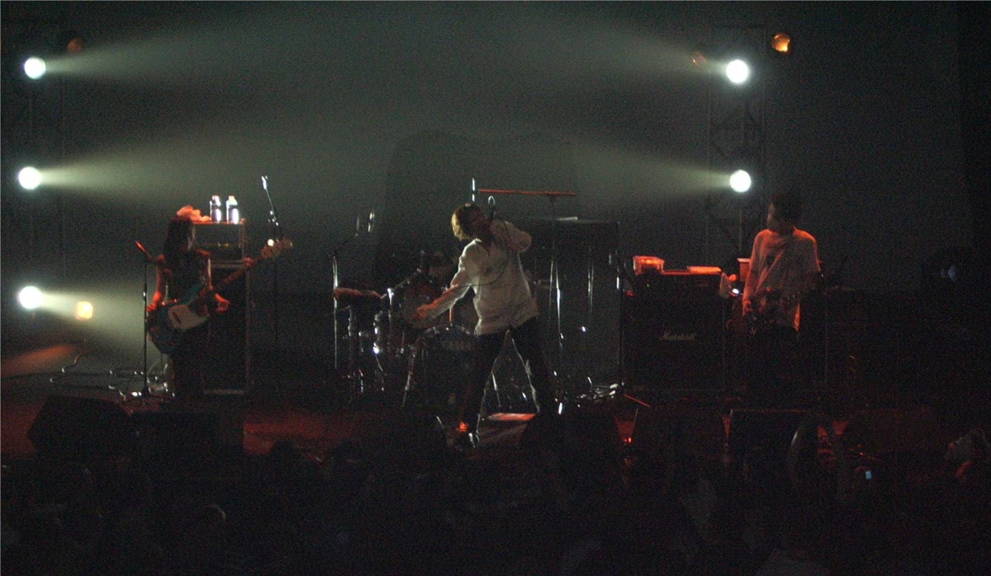 Melt-Banana live (2008)